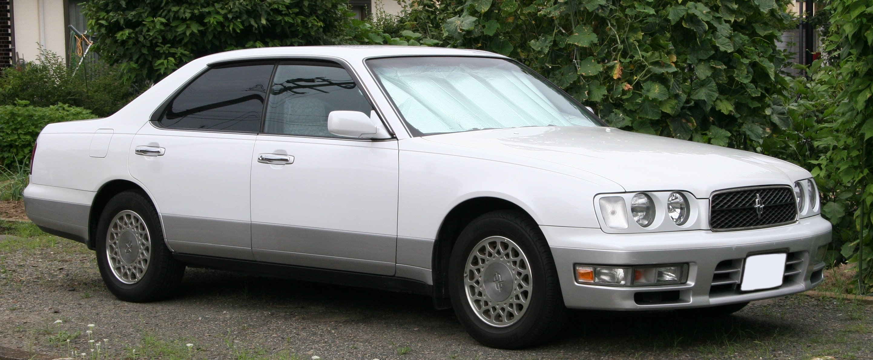 Nissan Cedric